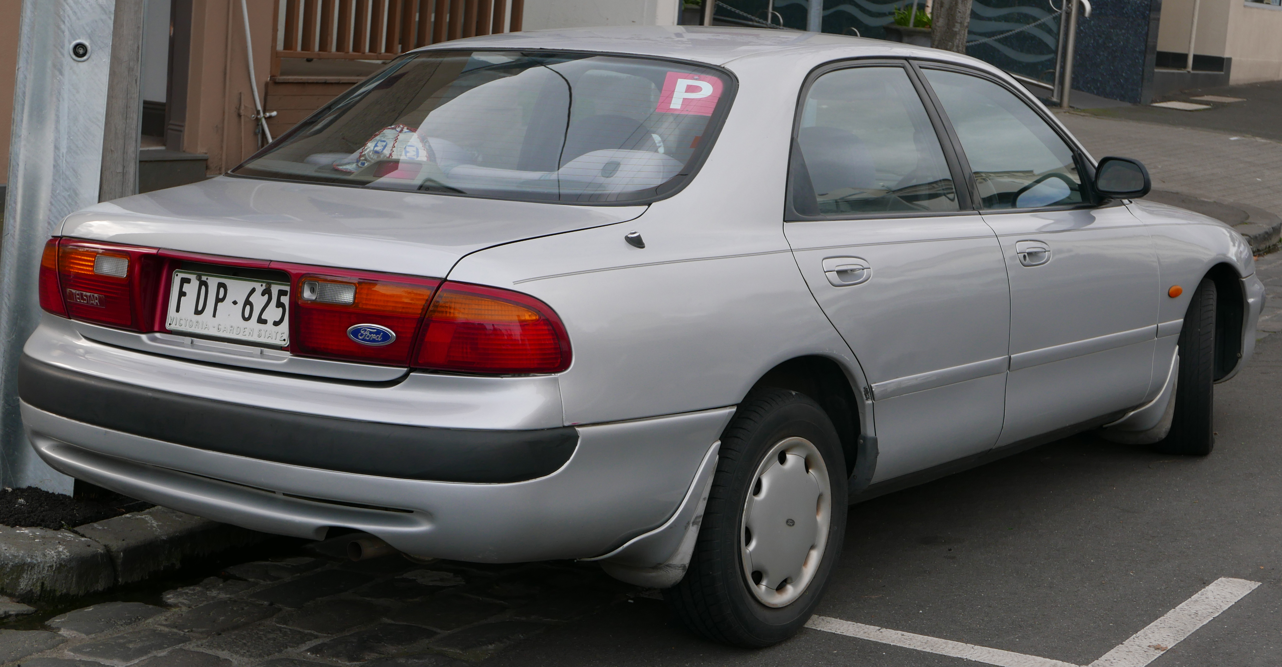 1993 Ford Telstar (AX) GLX sedan. Photographed in West Melbourne, Victoria, Australia. Vehicle registration enquiry results Jurisdiction Victoria Registration FDP625 Chassis code JC0AAASHVNNT46934 Engine code SHVNNT46934 Compliance date 1993-01 Year of manufacture 1993